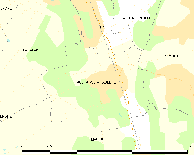 Map of French municipality Aulnay-sur-Mauldre